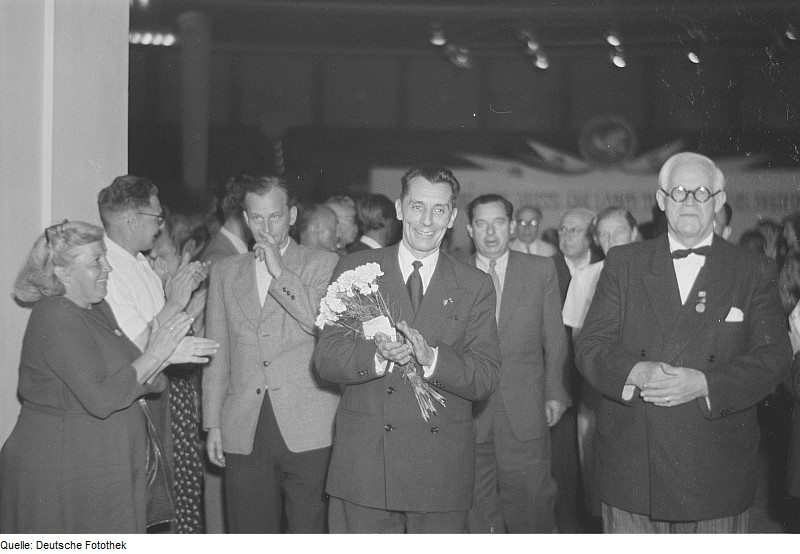 Original image description from the Deutsche Fotothek Jean Frédéric Joliot-Curie (Mitte)